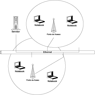 Wireless network.